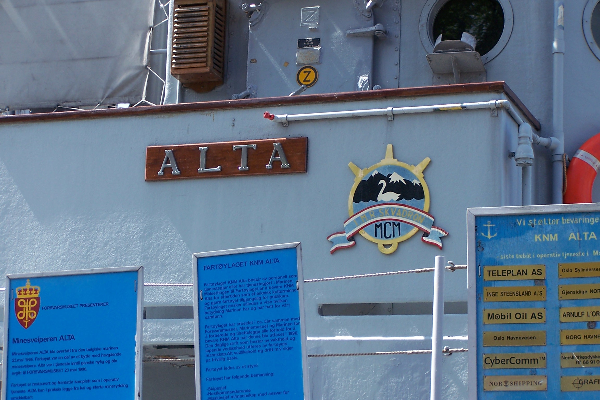 KNM Alta, former minesweeper of Royal Norwegian Navy, now a museum ship in Oslo. Photo Chris Nyborg, 19 June 2005